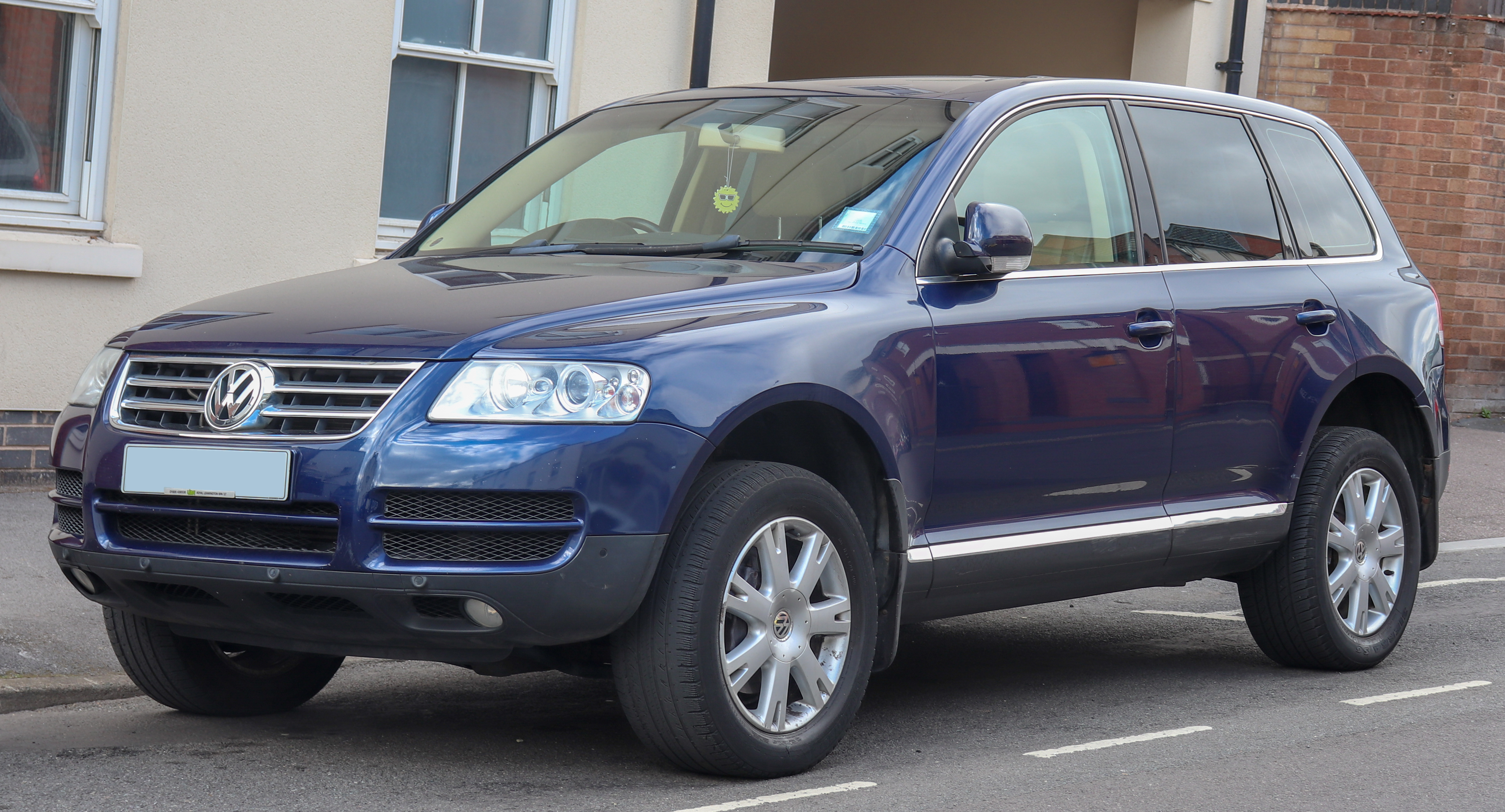 2005 Volkswagen Touareg V6 Sport Automatic 3.2 Front Taken in Leamington Spa